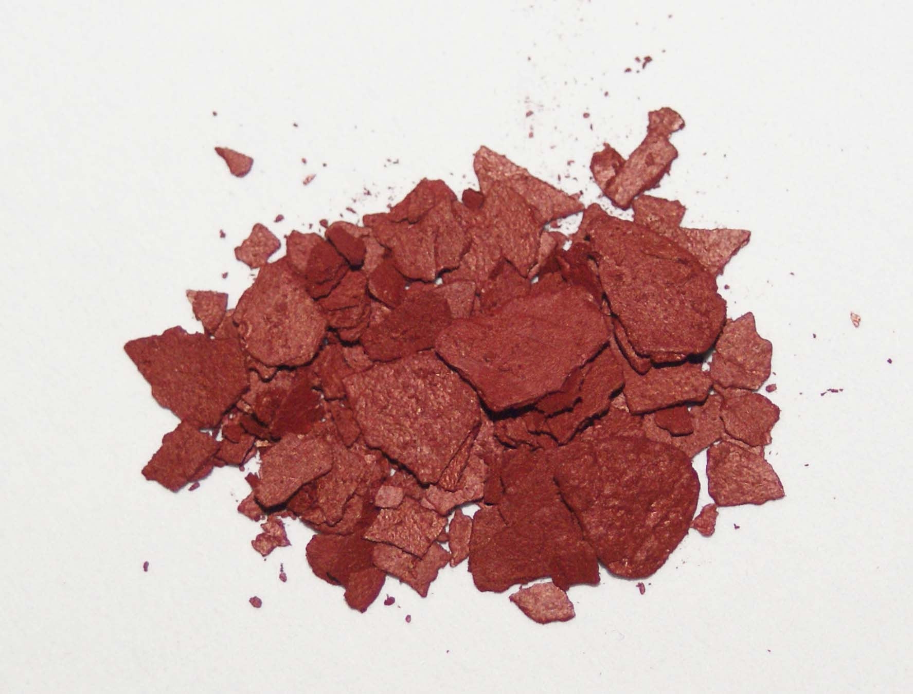 Lycopene, the red pigment that colors tomatoes.